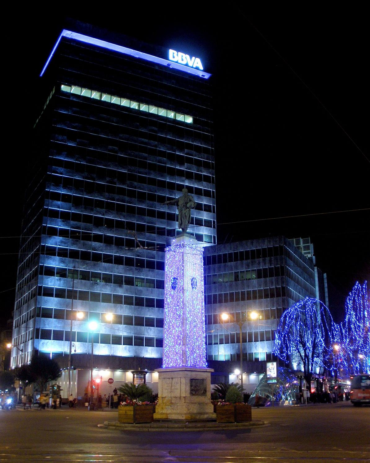 Decoración navideña nocturna en la Plaza Circular de Bilbao (País Vasco, España). En primer término, el Monumento a D. Diego López de Haro; tras él, la Torre del Banco de Vizcaya (hoy, BBVA); a la derecha, arranque de la Gran Vía.